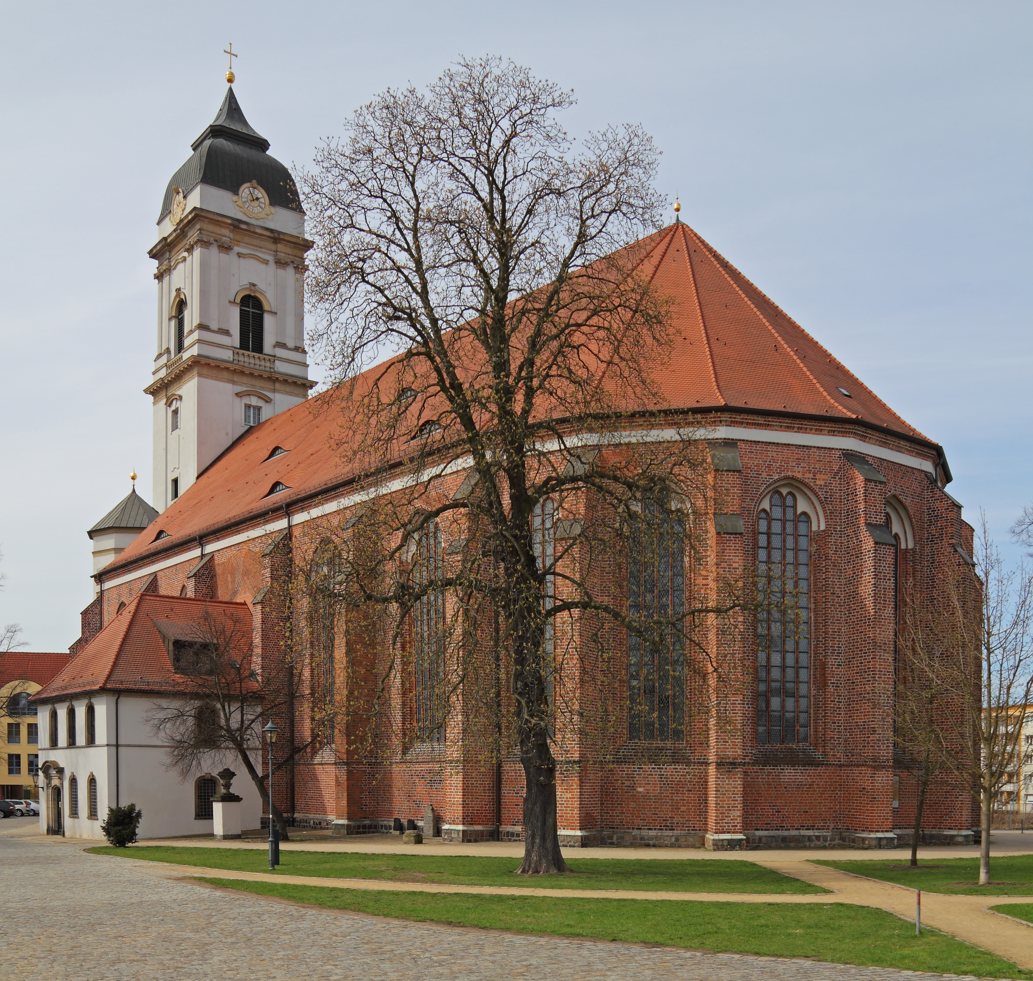 St. Mary Church in Fürstenwalde (Spree), Brandenburg, Germany